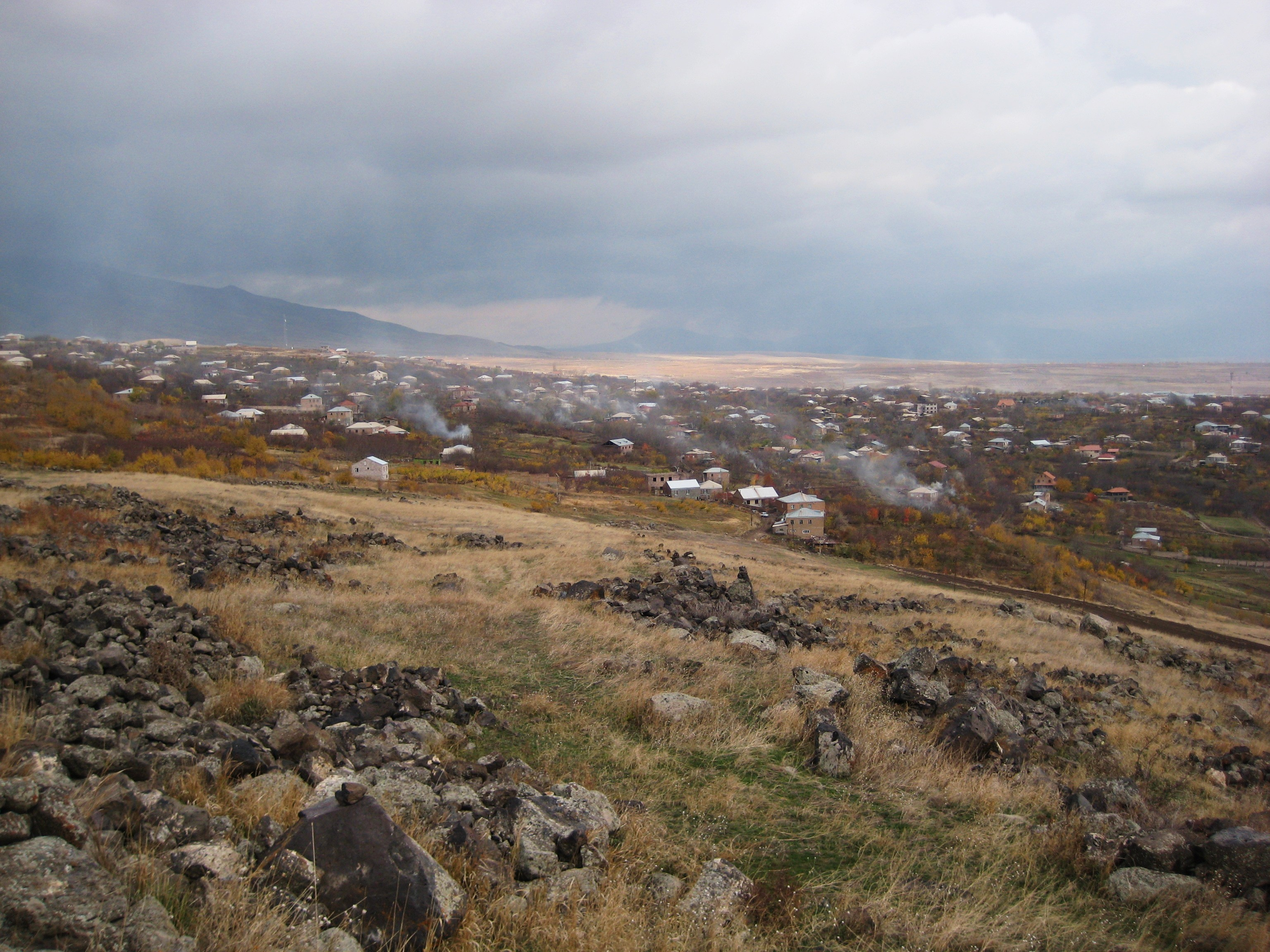 The village of Ushi. The smoke is from people burning dead plant material.